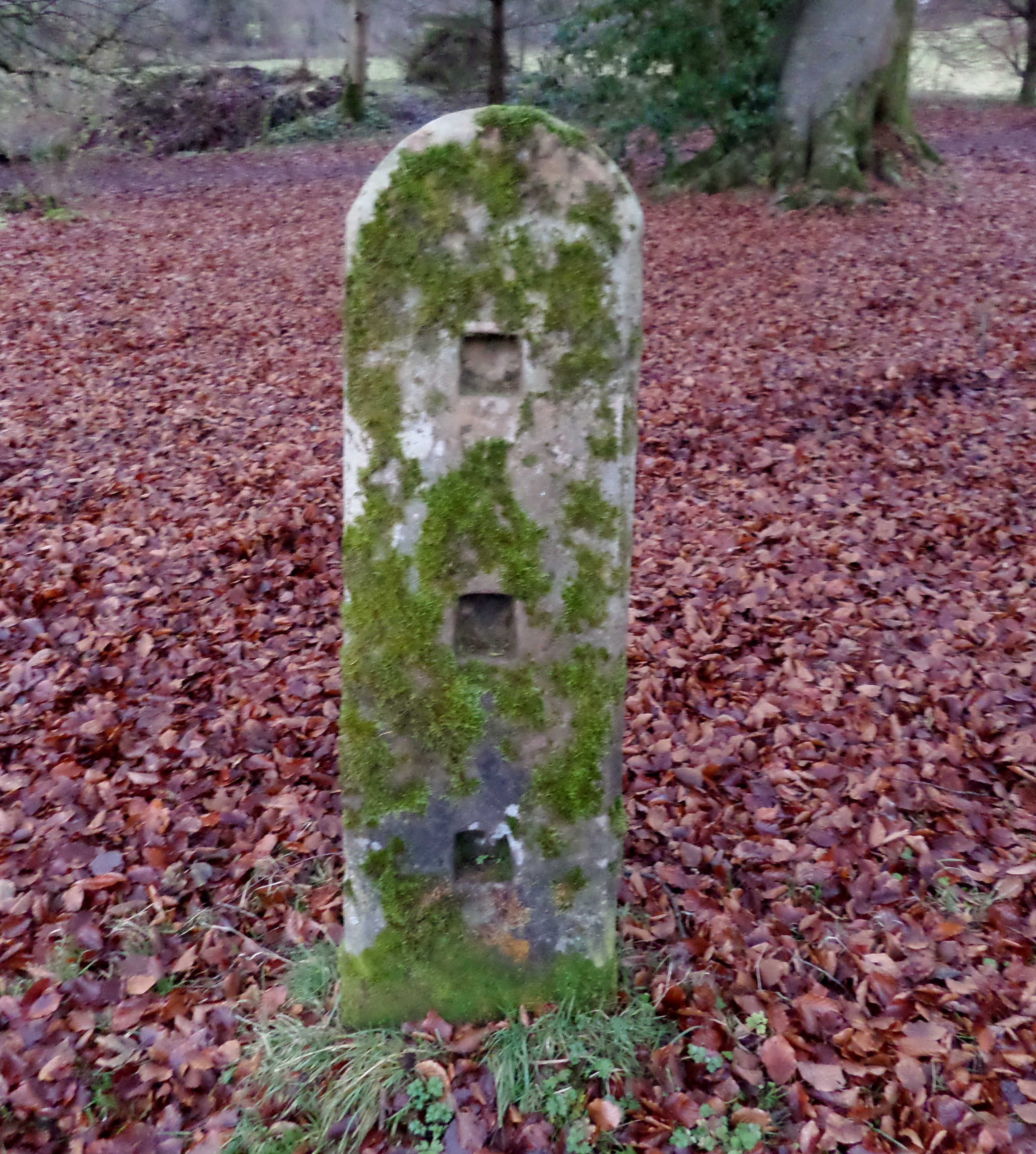 Slip gate pier with spar notches, Greenbank Garden, Scotland.